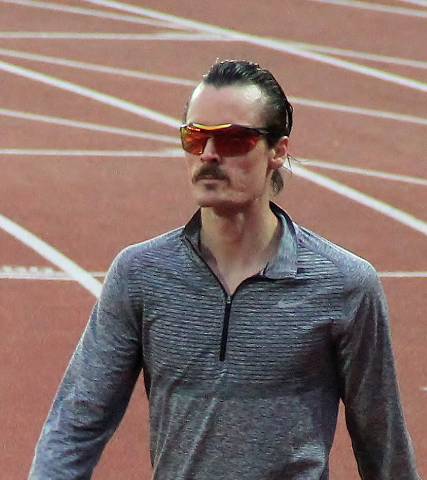 Henrik Ingebrigtsen at the 2016 Bislett Games